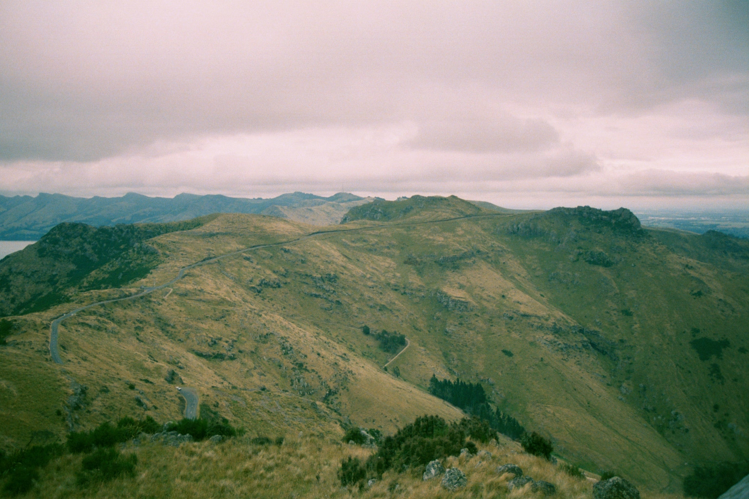 Looking out at a portion of the Port Hills, near Christchurch, New Zealand. Taken from the top of the Christchurch Gondola, which is on Mount Cavendish. A portion of Summit Road is visible, which runs all along the top of the Port Hills.